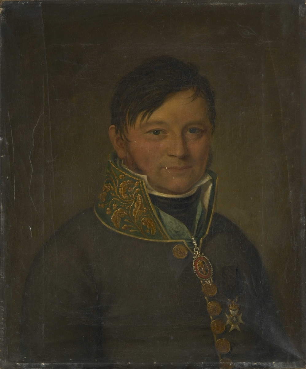 Depicted person: Johan Collett – father of the Constitution of Norway and member of Stortinget